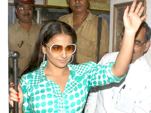 Vidya Balan promotes 'The Dirty Picture' in Kolkata's trams